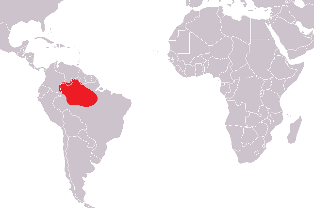 Distribution of the amazon manatee.